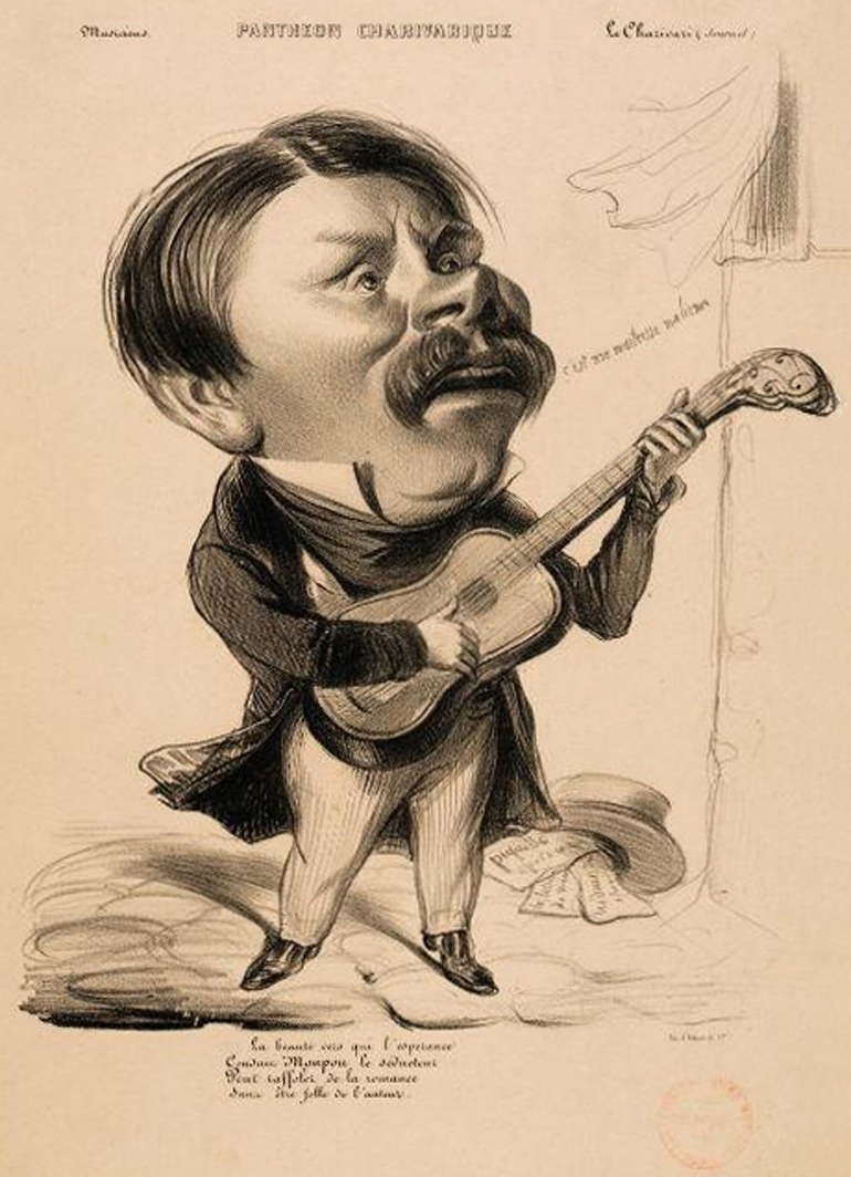 Caricature of French composer Hippolyte Monpou (1804-1841); lithograph; size: 35,5 x 25 cm